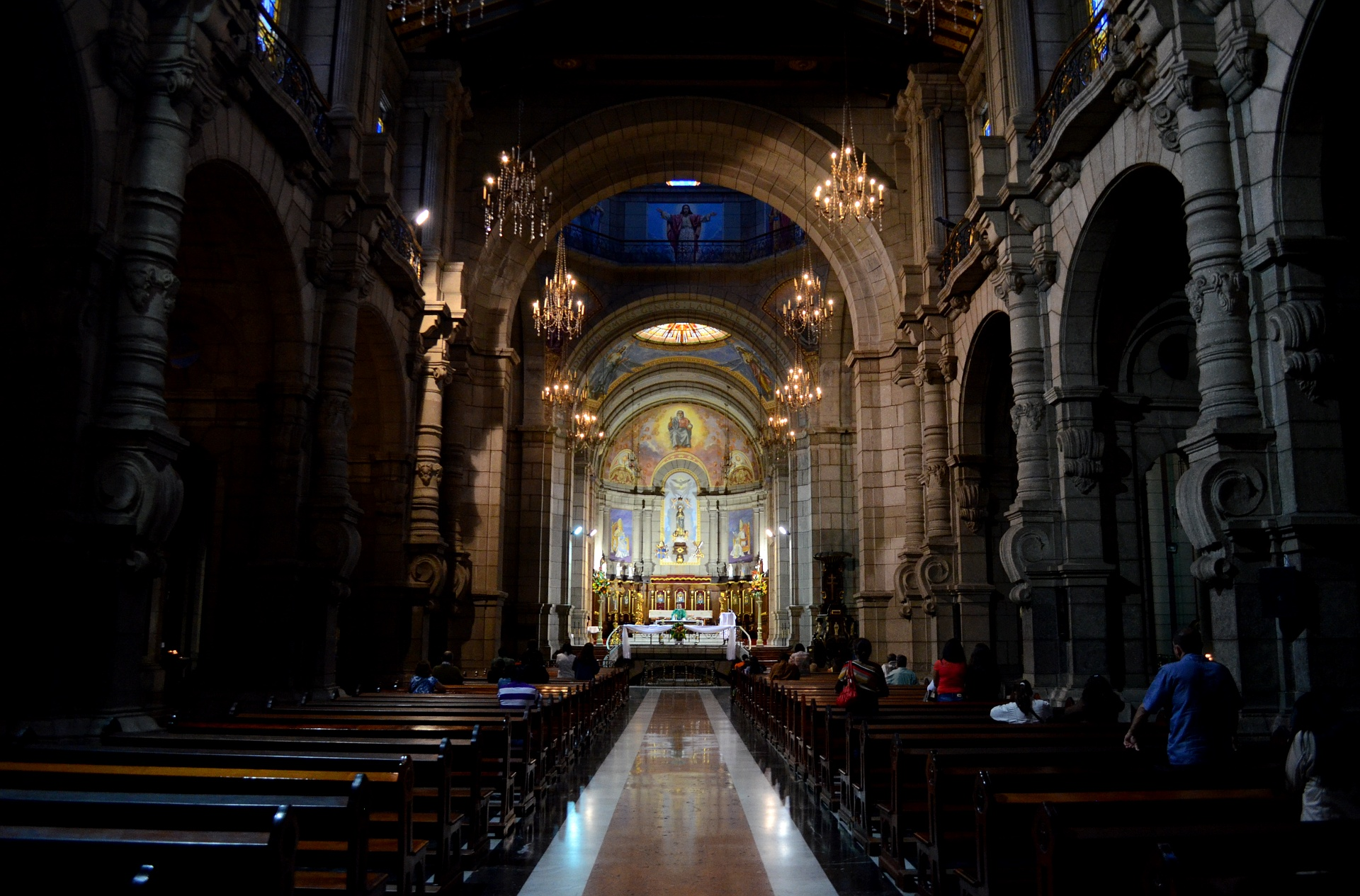 Cathedral of Mérida Venezuela